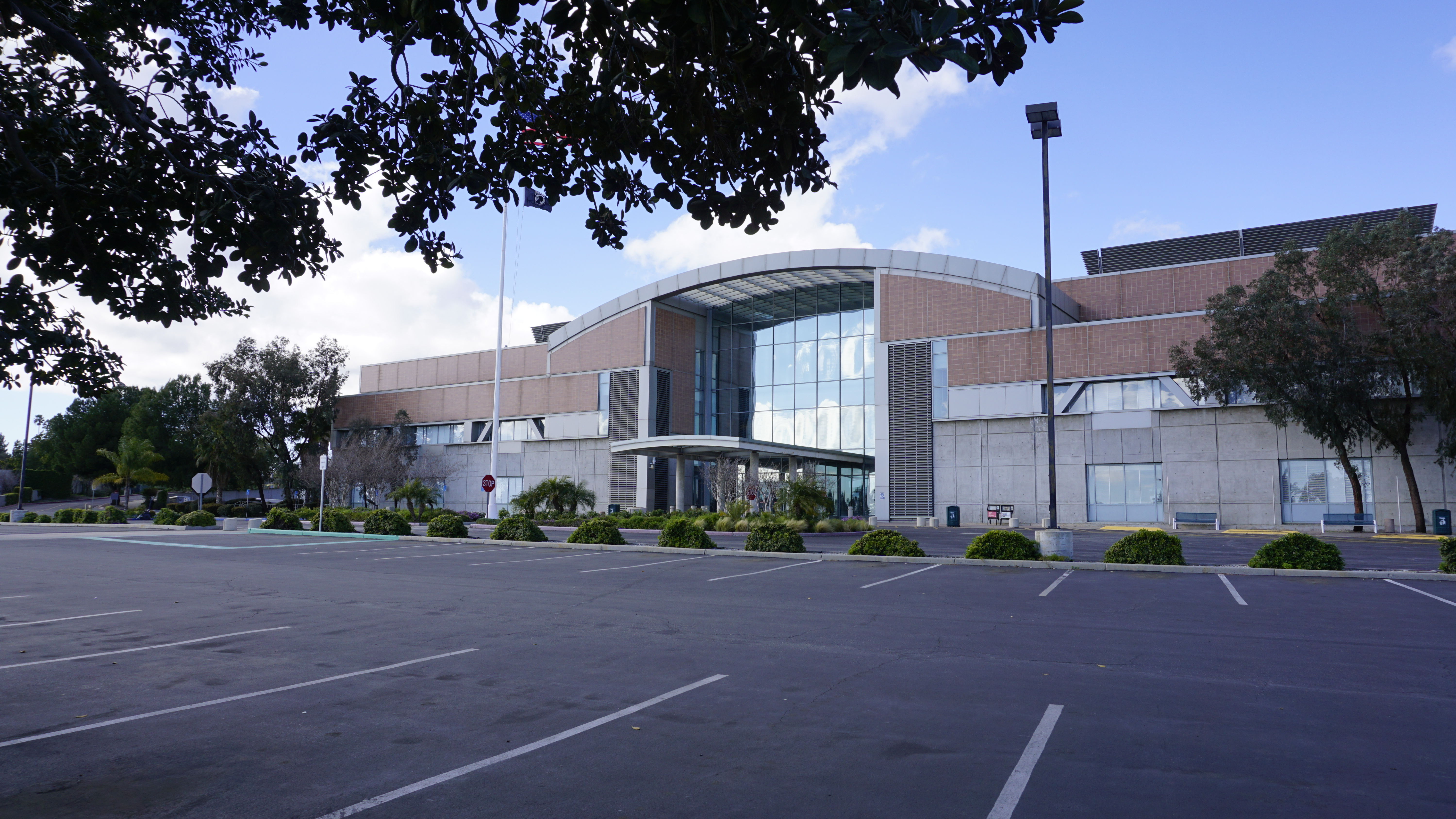 Building 200 of the VA Sepulveda Ambulatory Care Center. View towards the main entrance from the parking lot.